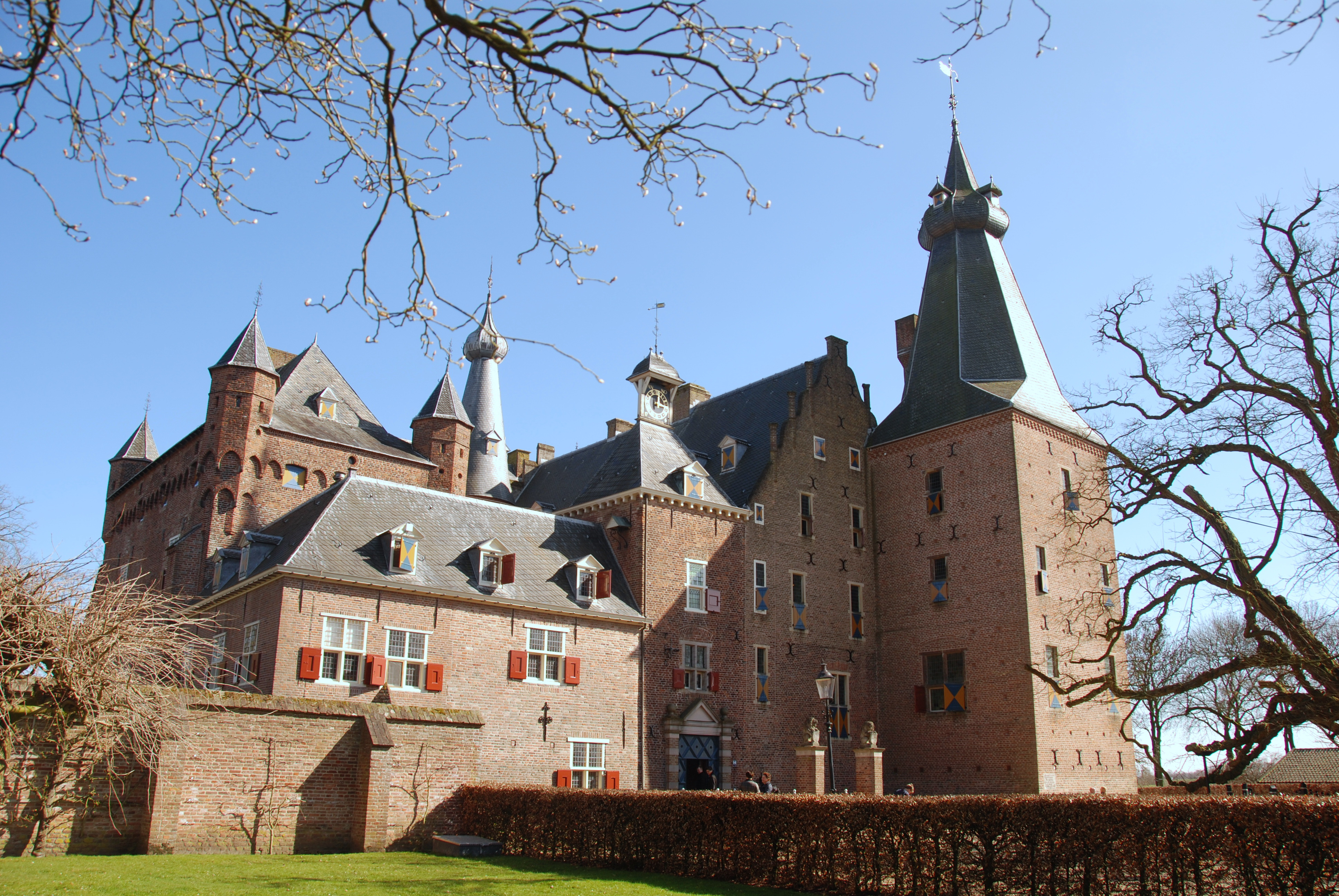 Doorwerth castle in early spring with right an old acacia at the main entrance, planted in 1678